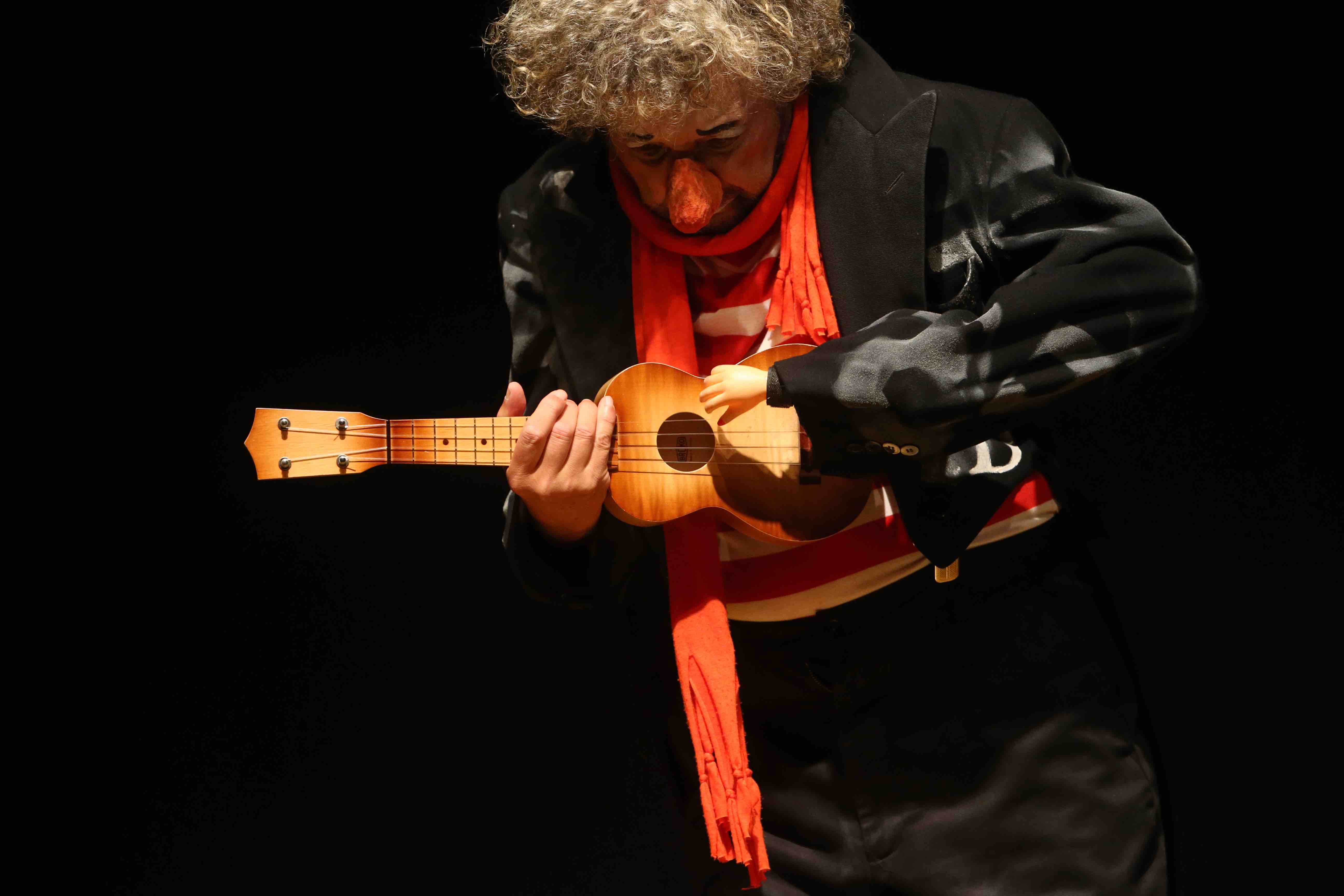 "Oops!" one man show by and with Vladimir Olshansky